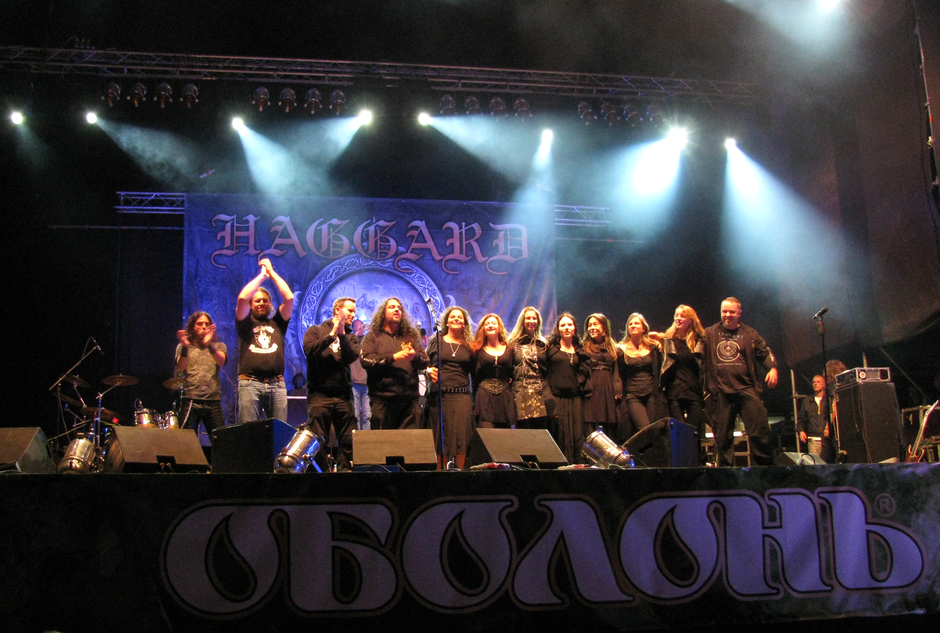 Haggard playing at Global East Rock Festival 2010